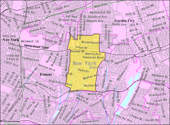 U.S. Census 2000 reference map for Franklin Square, New York